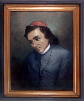 A portrait of Archbishop Diego Vázquez de Mercado 1533 - 1616). Diego Vázquez de Mercadowas archbishop of Manila from 1608 untill his death in 1616.